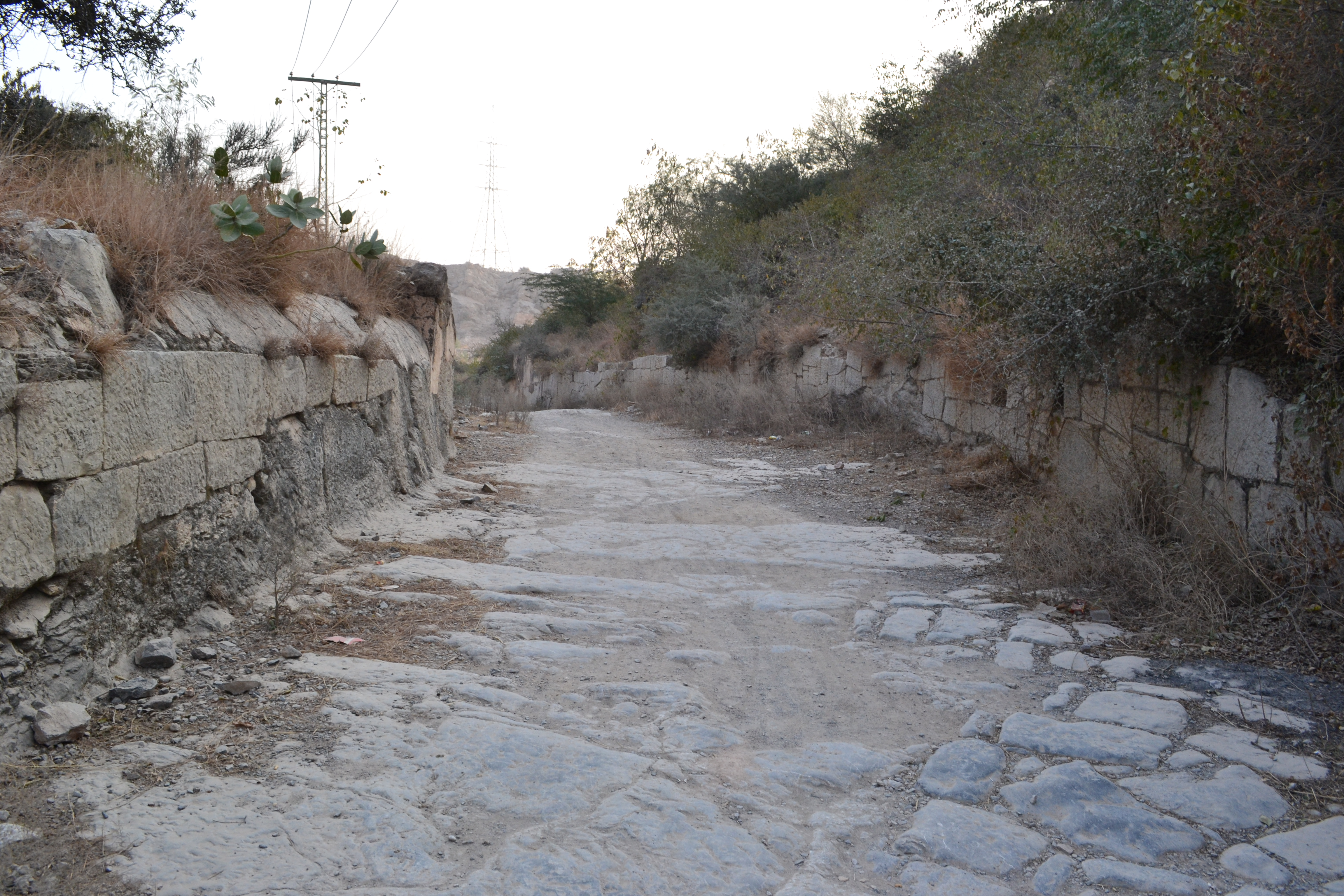 Original GT Road between Margalla and kala Chitta